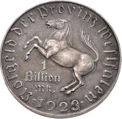 GERMANY, Weimarer Republik. Westphalen. NI-AR Notgeld 1 Billion Marks (60mm, 82.8 g, 12h). Triply dated 1757, 1831, and 1923. Bare head of Henrich Friedrich Karl keft / Horse rearing left. Menzel 14019.34. EF.